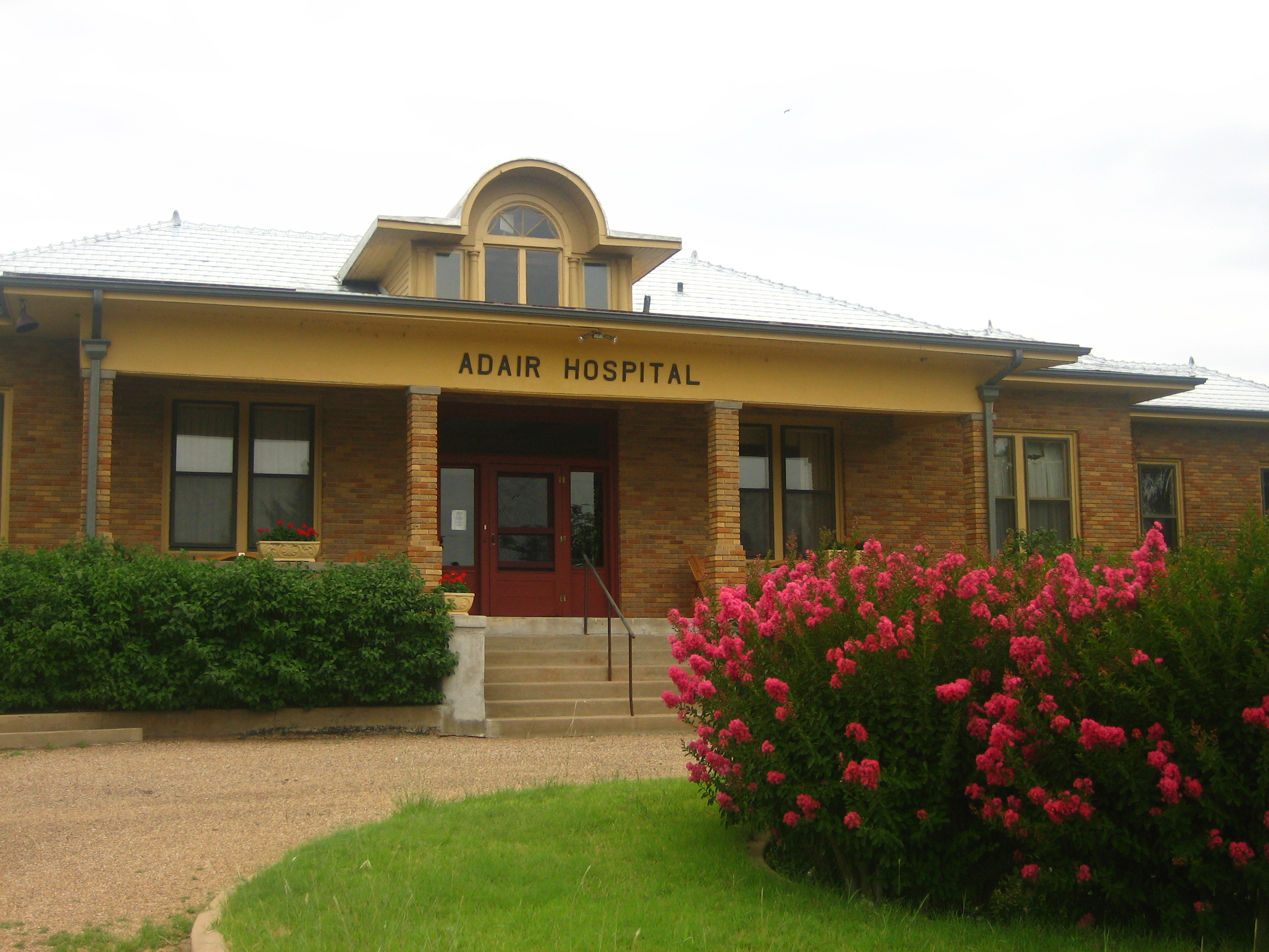 I took photo on July 15, 2008.Billy Hathorn (talk) 22:47, 22 July 2008 (UTC)